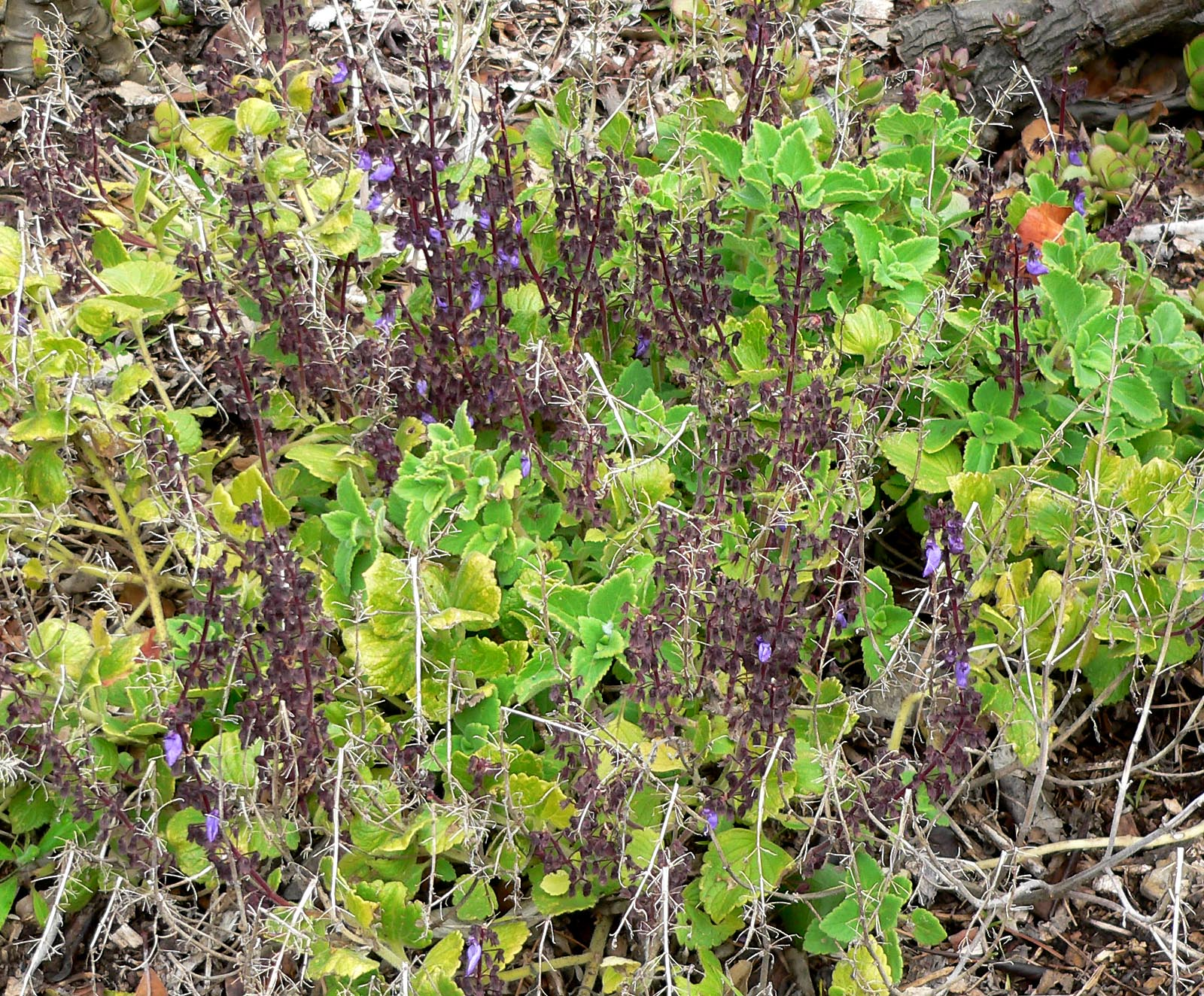 Photo of Coleus lanuginosus at the University of California Botanical Garden